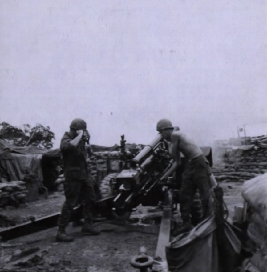 Operation Francis Marion a search and destroy mission against North Vietnamese Army troops moving through Pleiku Province, 40 km southwest of Pleiku and east of the Cambodian boarder. Members of Battery "B", 42nd Artillery Regiment, 4th Infantry Division, fire an M2A2 105mm howitzer in support of elements of the 1st Battalion, 12th Infantry Regiment.